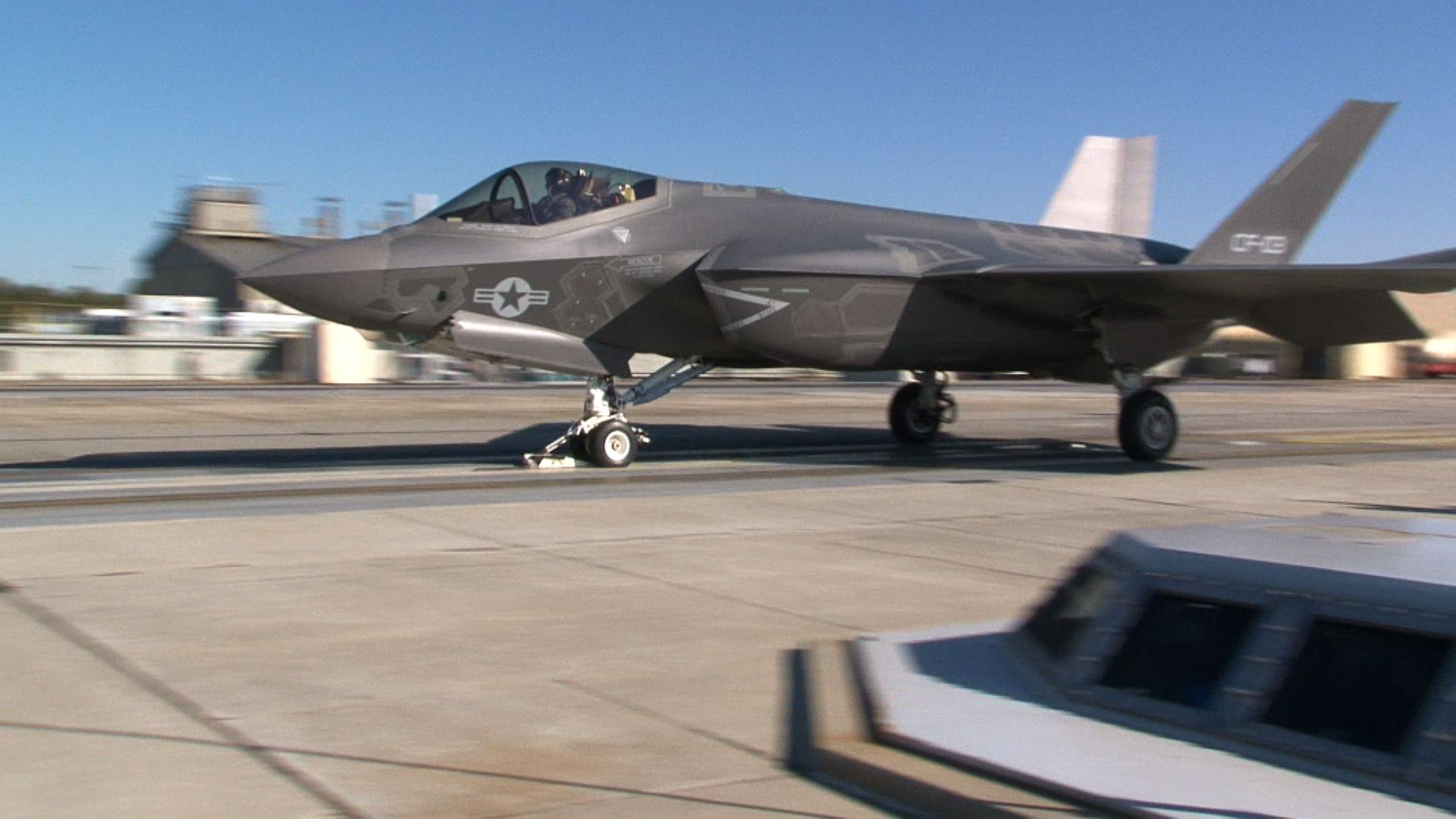 LAKEHURST, N.J. (Nov. 18, 2011) An F-35C Lightning II test aircraft piloted by Lt. Christopher Tabert launches for the first time from the new electromagnetic aircraft launch system. The new launch system will be installed on the aircraft carrier USS Gerald R. Ford (CVN 78). The F-35C carrier variant of the Joint Strike Fighter is distinct from the F-35A and F-35B variants with its larger wing surfaces and reinforced landing gear to withstand catapult launches and deck landing impacts associated with the demanding aircraft carrier environment. Initial carrier trials for the F-35C are scheduled for 2013. The F-35C is undergoing test and evaluation at Naval Air Station Patuxent River and Joint Base McGuire-Dix-Lakehurst before delivery to the fleet. (U.S. Navy photo by David Sckrabulis/Released)